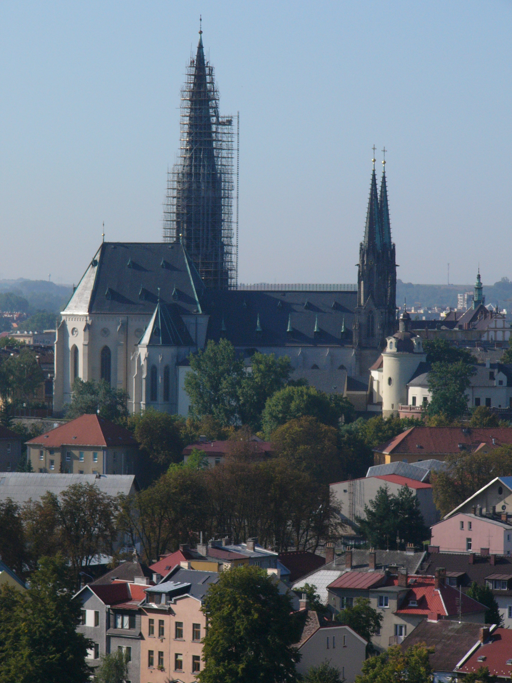 Reconstruction of St. Wenceslaus cathedral in Olomouc (Czech Republic) in 2006.